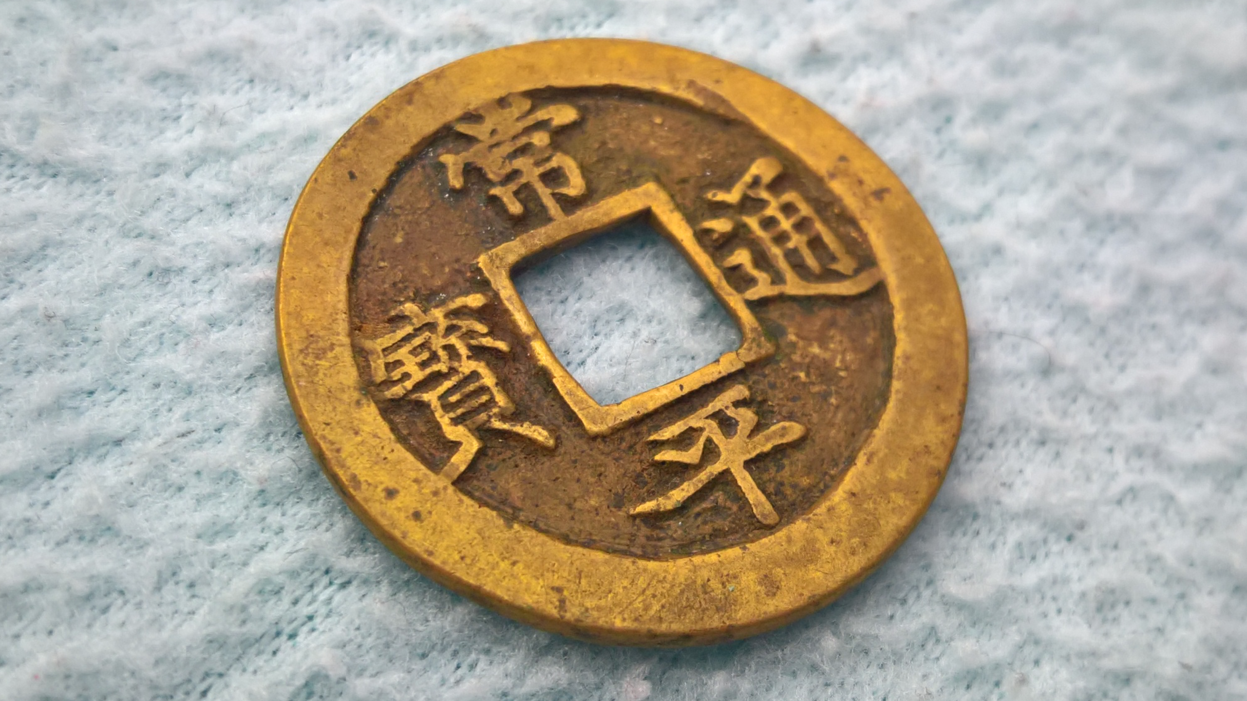 A Sang P'yŏng T'ong Bo (常平通寶) coin of 5 mun issued by the Treasury Department Mint (戶).